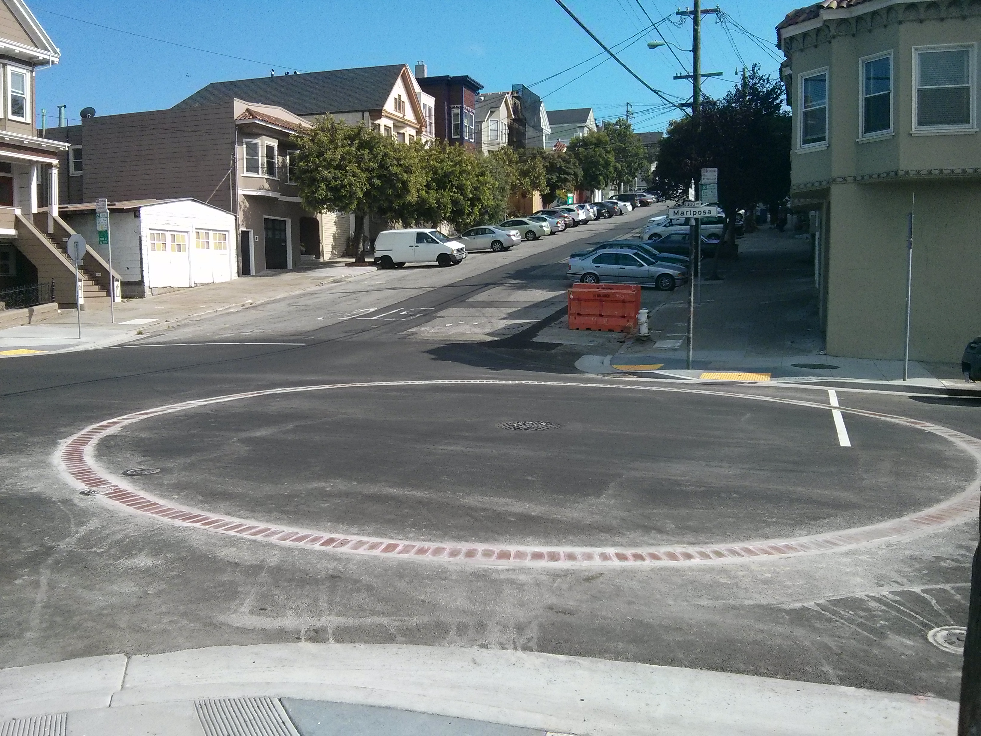 Water cistern in San Francisco, California, in the Potrero Hill neighborhood, at the intersection of Mariposa and Missouri Streets.